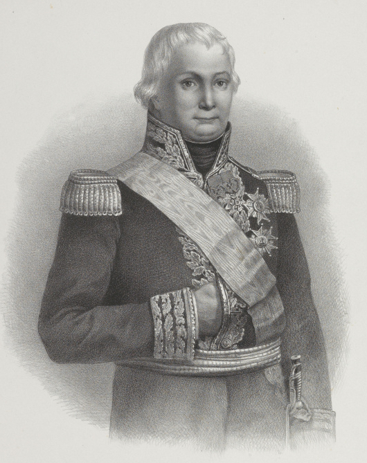 Admiral Honore Ganteaume